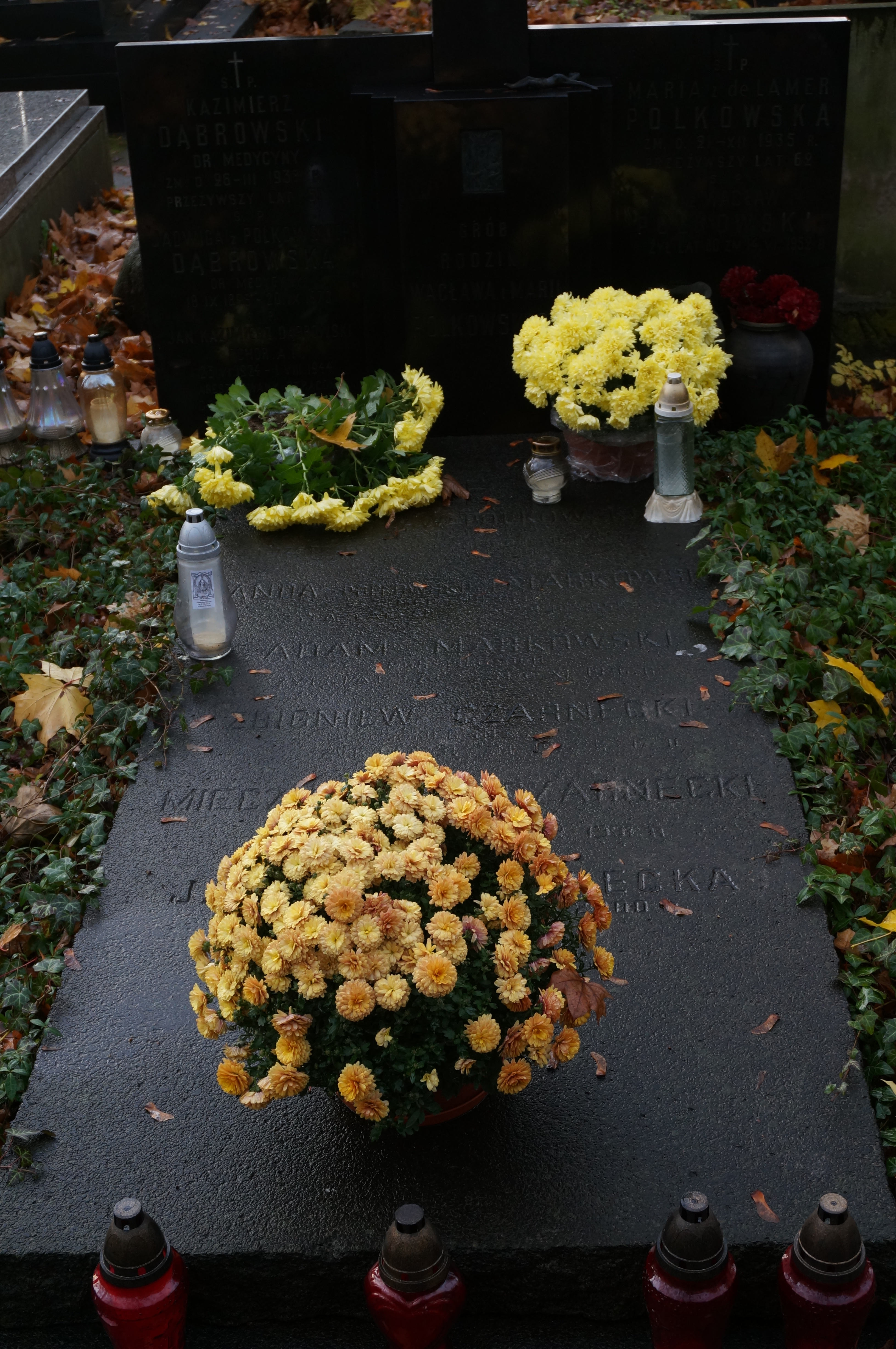 Gravestone of Adam Markowski at the Powązki Cemetery (section 299a, row 3, grave 2)